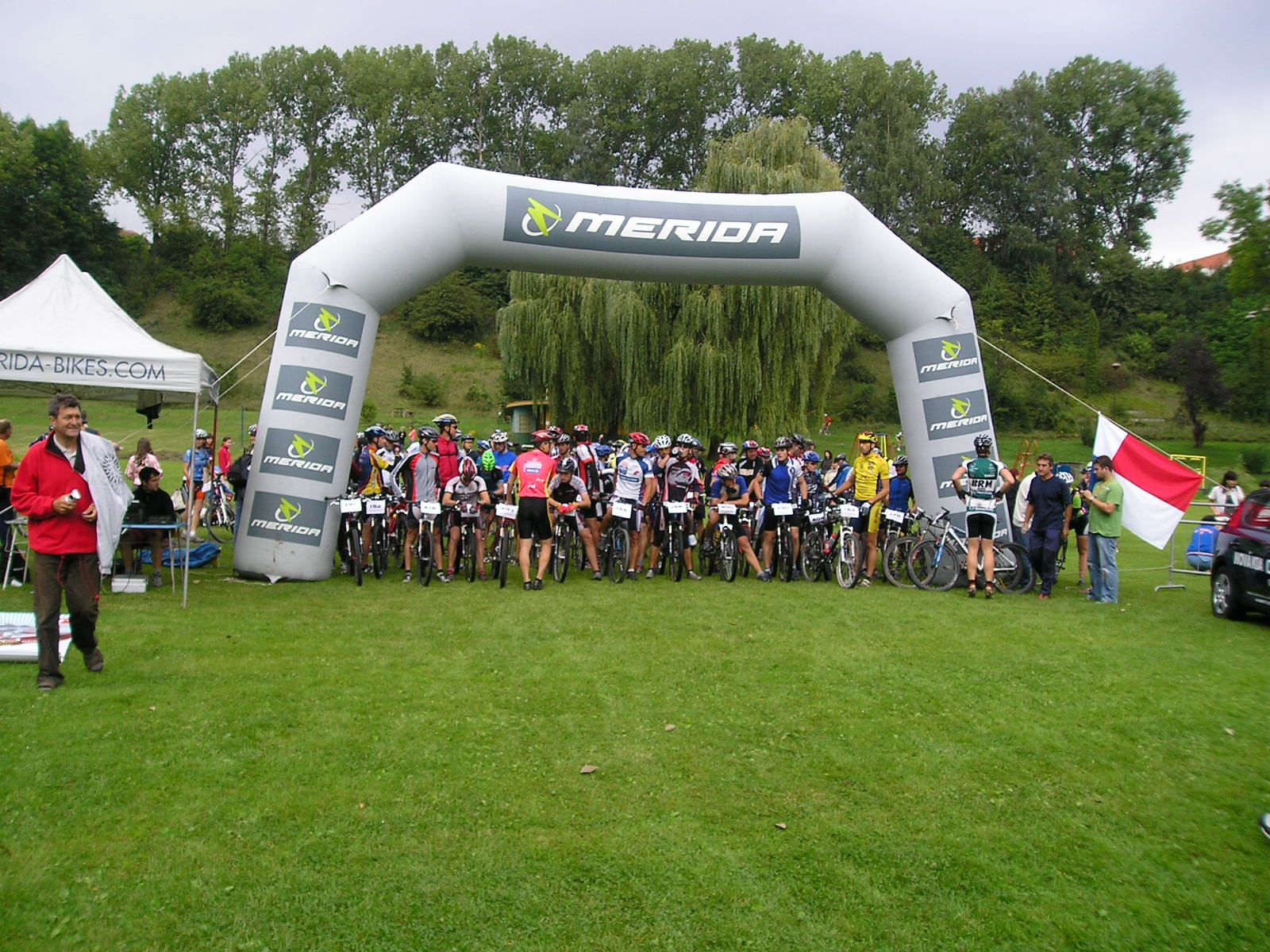 CYKLOMARATÓN-ska MTB séria - Merida-Zelená stopa SNP - Start